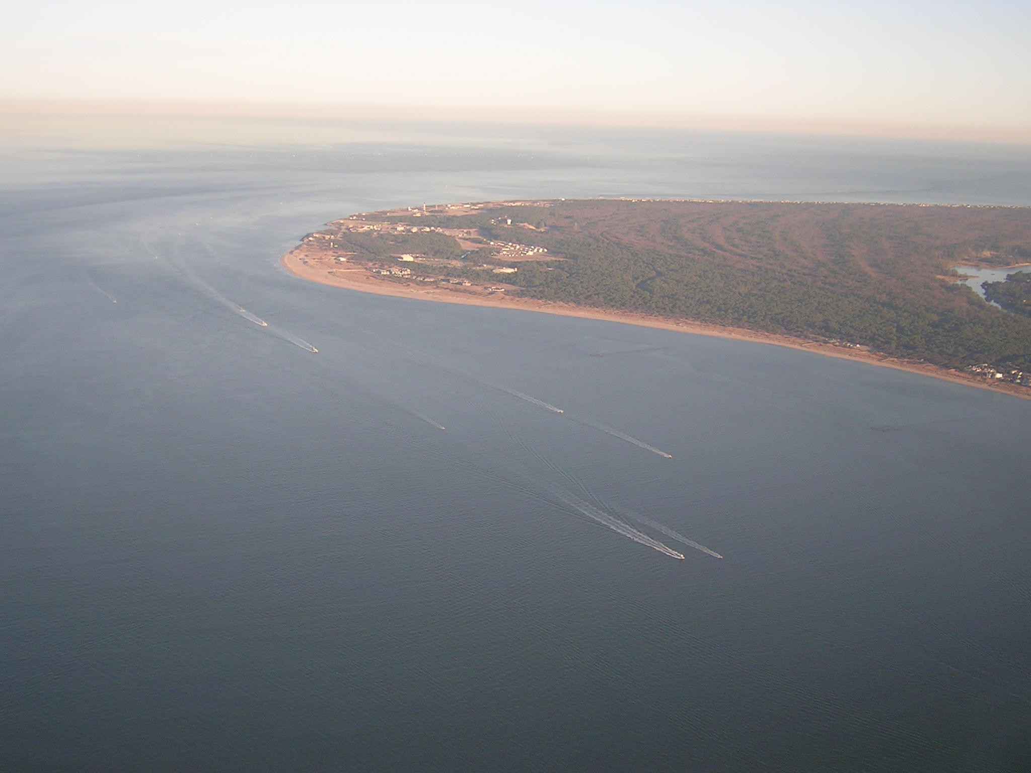 Cape Henry in Virginia Beach, USA. Taken from a descending airplane above the entrance to the Chesapeake Bay at approximately 36°56′11.54″N 76°05′24.31″W / 36.9365389°N 76.0900861°W, facing approximately 105°.